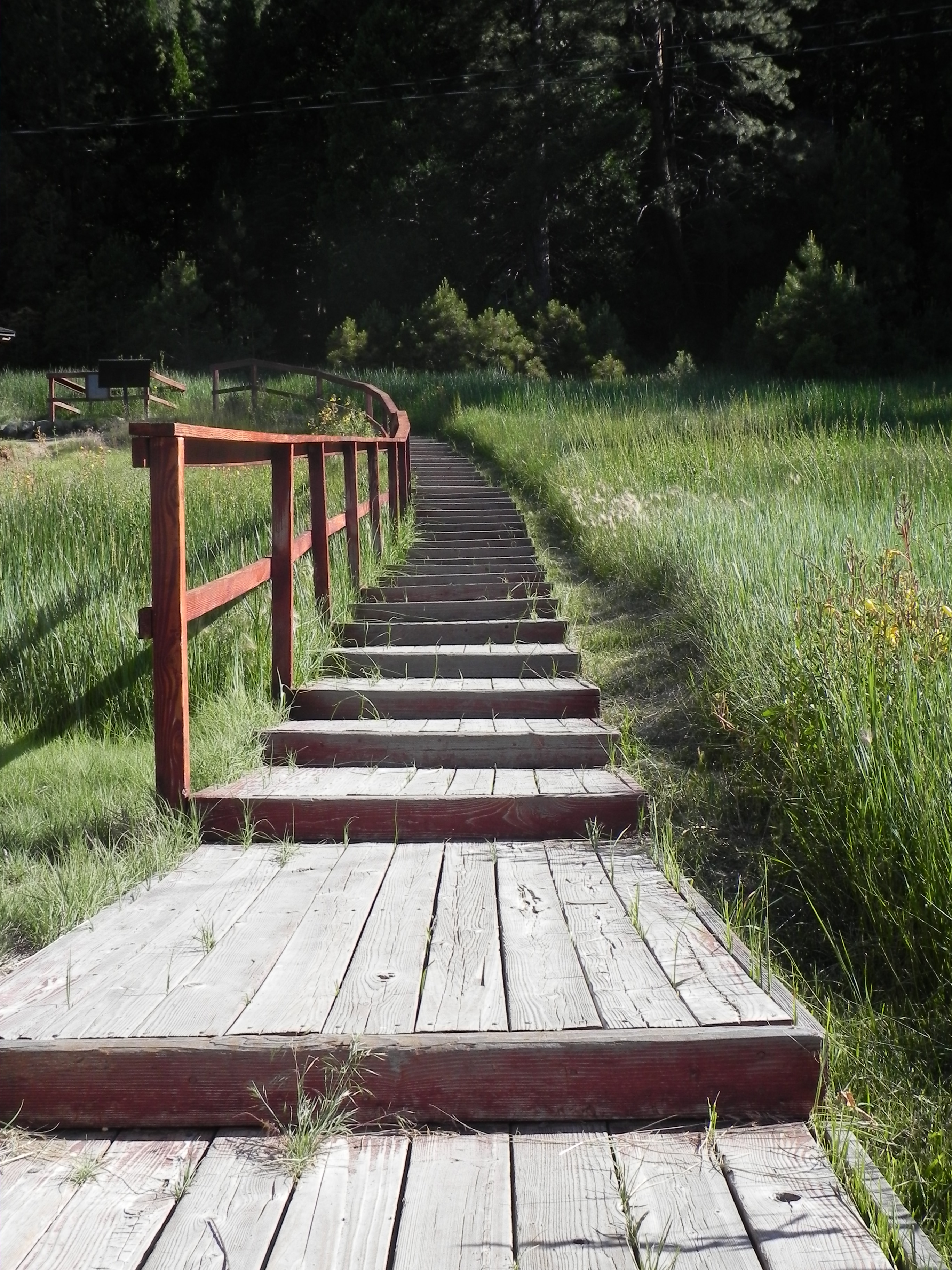 Grover Hot Springs State Park, California